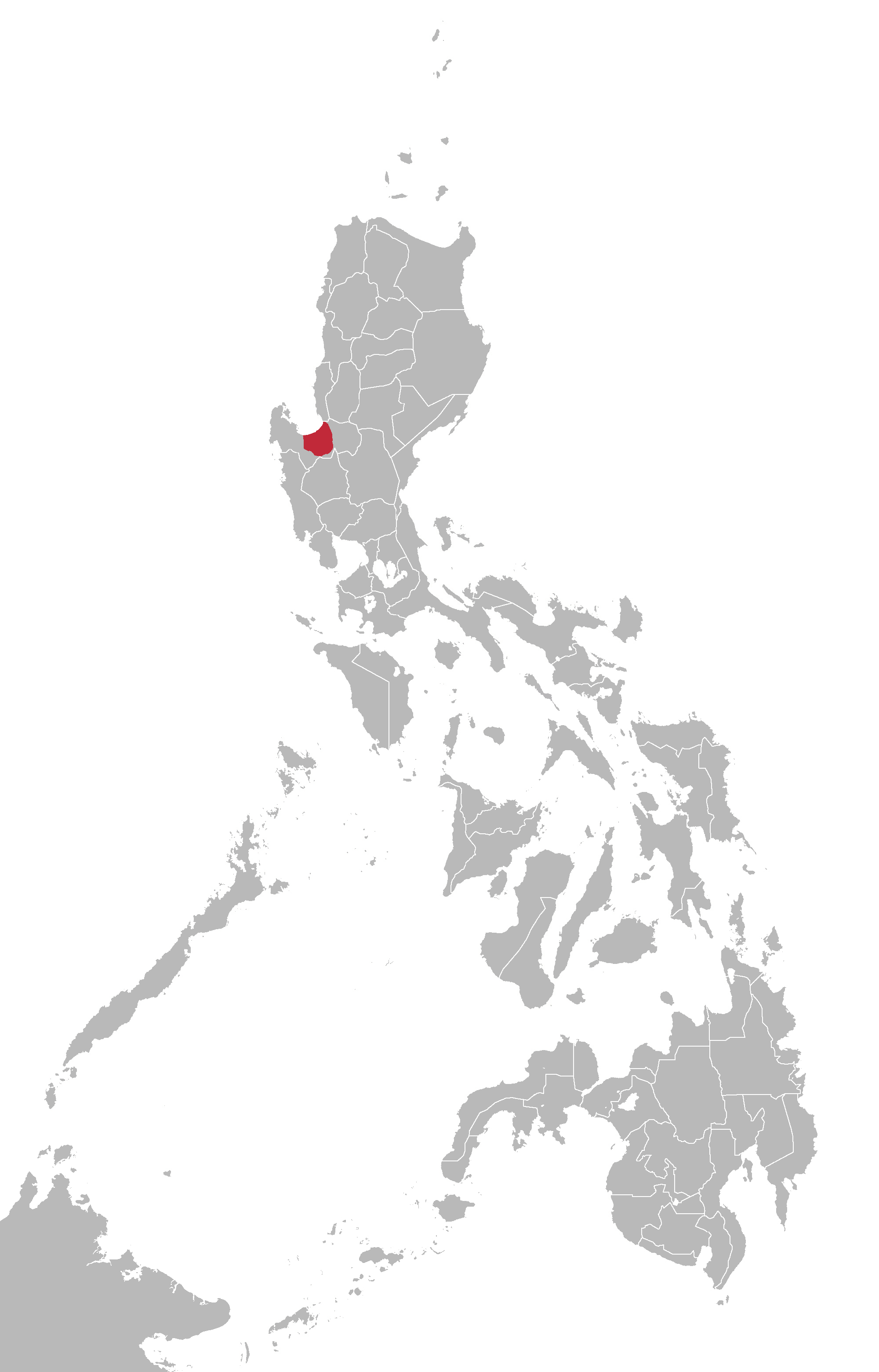 Pangasinan language map based on Ethnologue